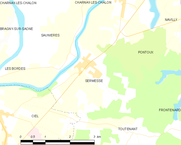 Map of French municipality